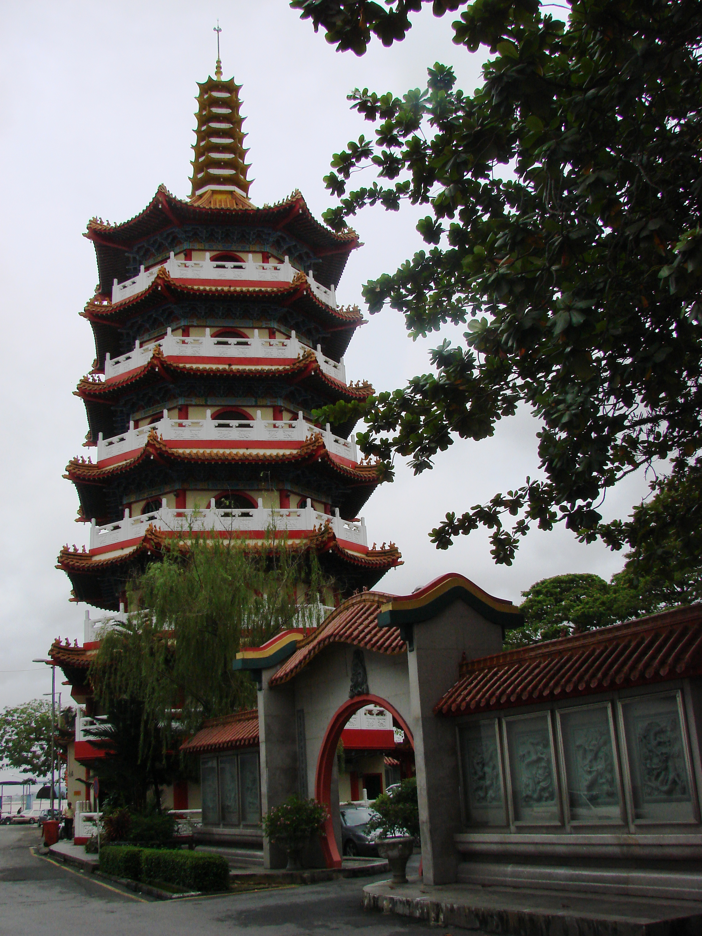 The Tua Pek Kong Temple in Sibu, Sarawak, Malaysia.